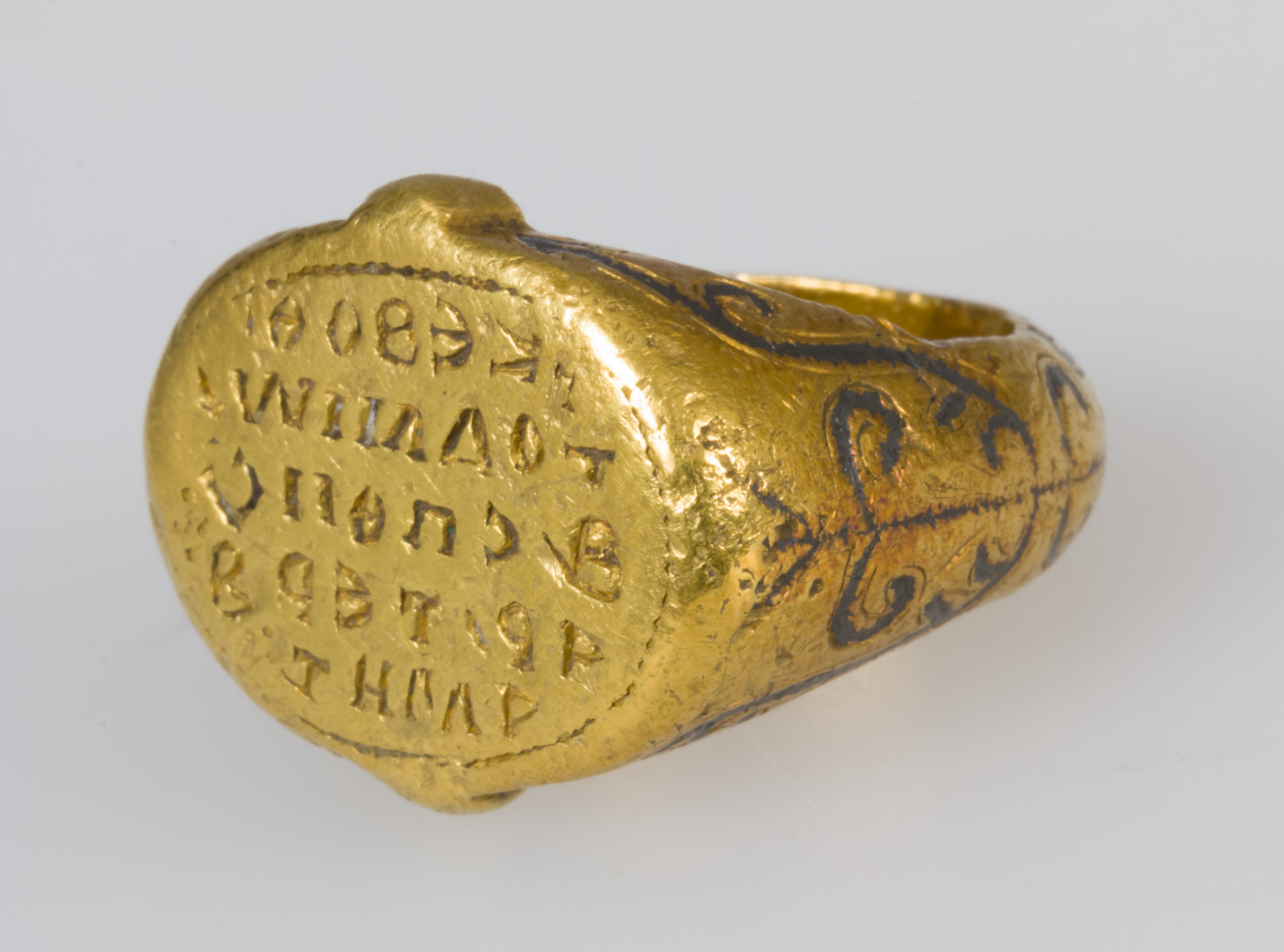 Byzantine; Ring; Metalwork-Gold